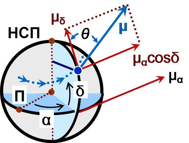 Components of proper motion.